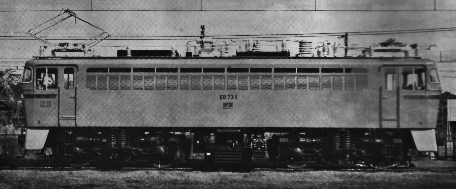 JNR Class ED73 electric locomotive ED73 1 shortly after delivery